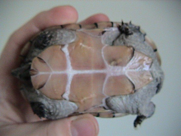 Common Musk Turtle (Sternotherus odoratus) plastron